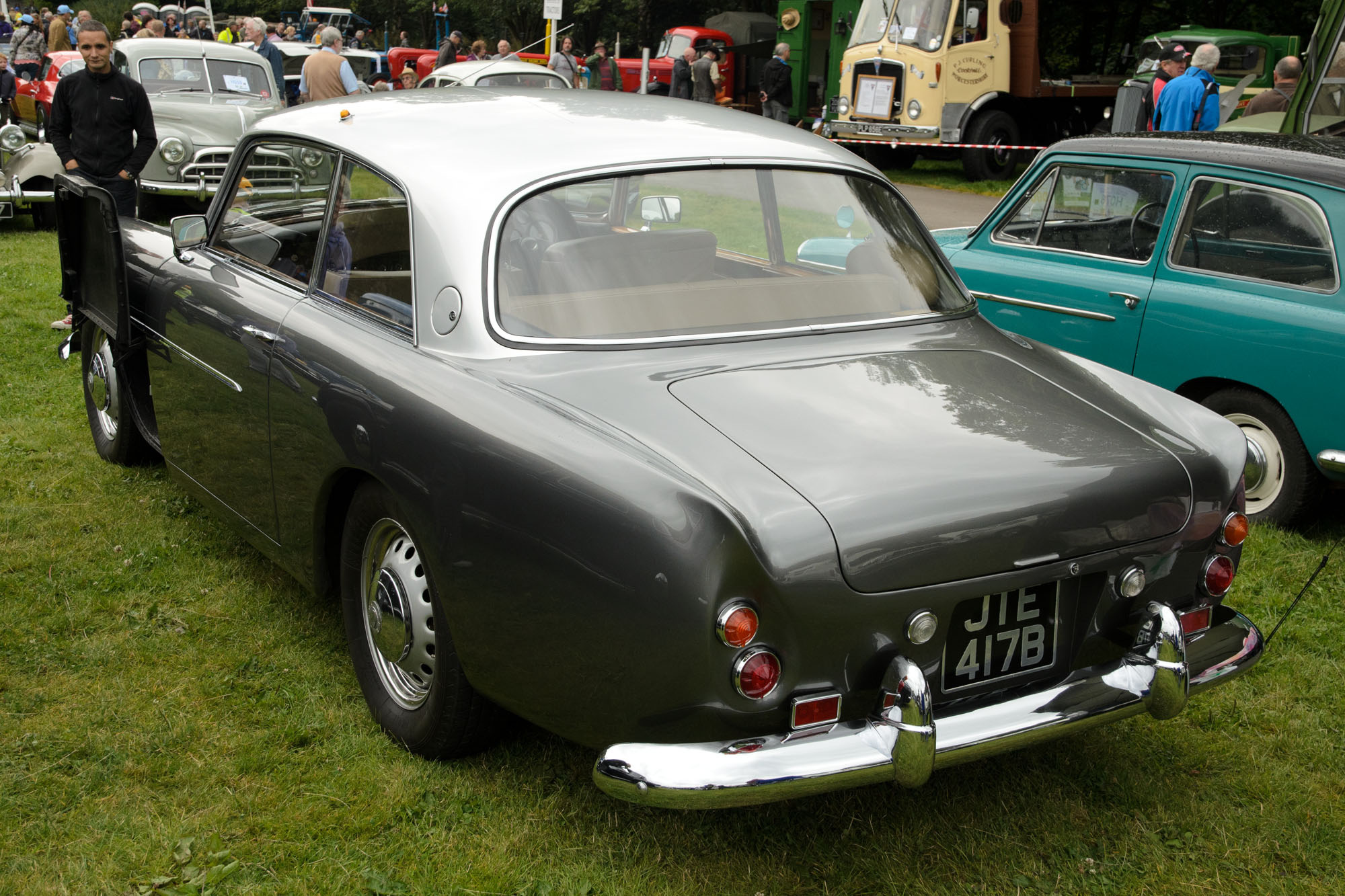 Hebden Bridge Vintage Weekend 01/08/2015